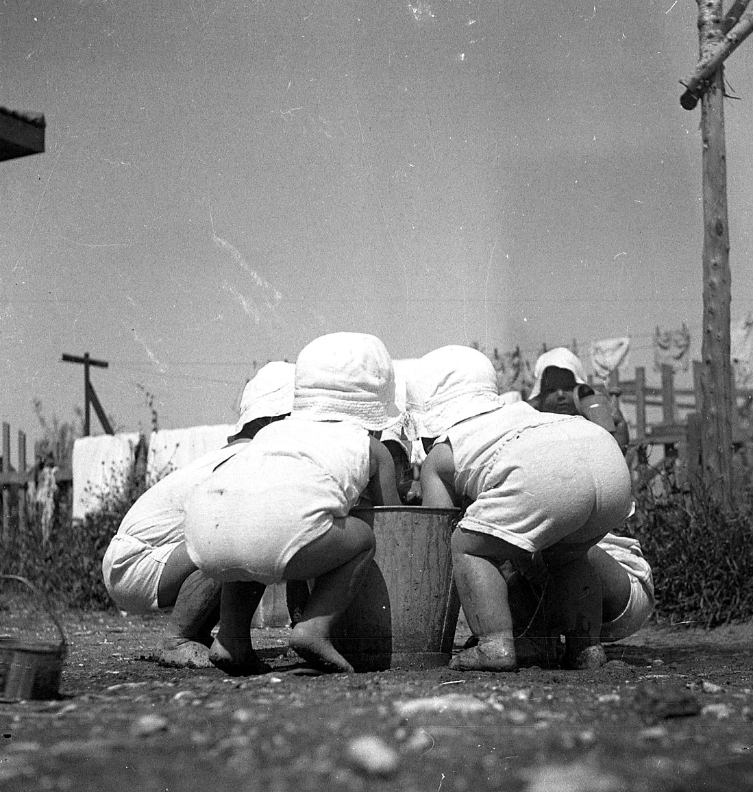 Education in Israel